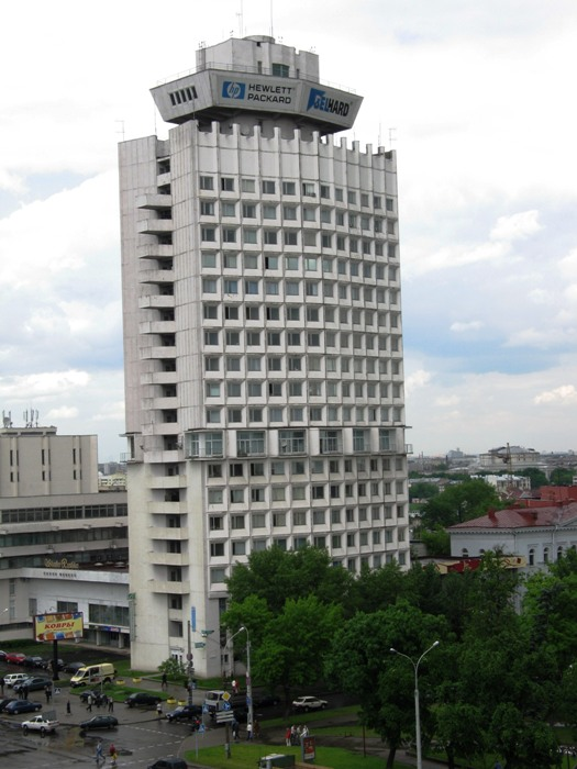 Belhard Group building. Belarus, Minsk, Melnikayte-2